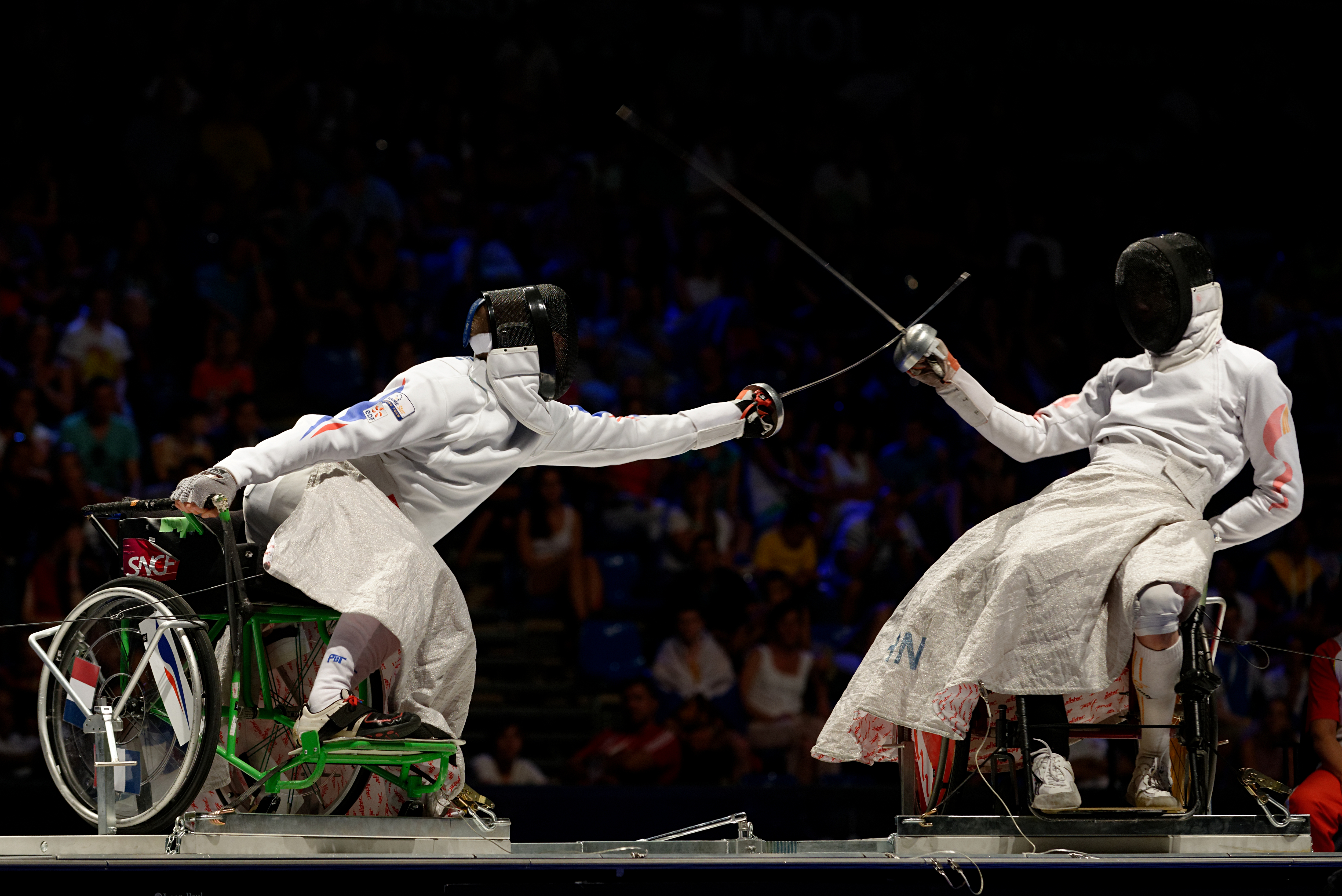 France's Romain Noble (L) fences against Tian Jianquan of China (R) in the final of the men's épée A event in the 2013 IWAS World Wheelchair Fencing Championship at Syma Hall in Budapest on 8 August 2013.